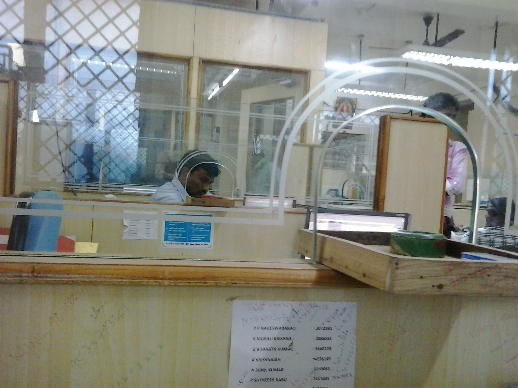 photo by his colleague